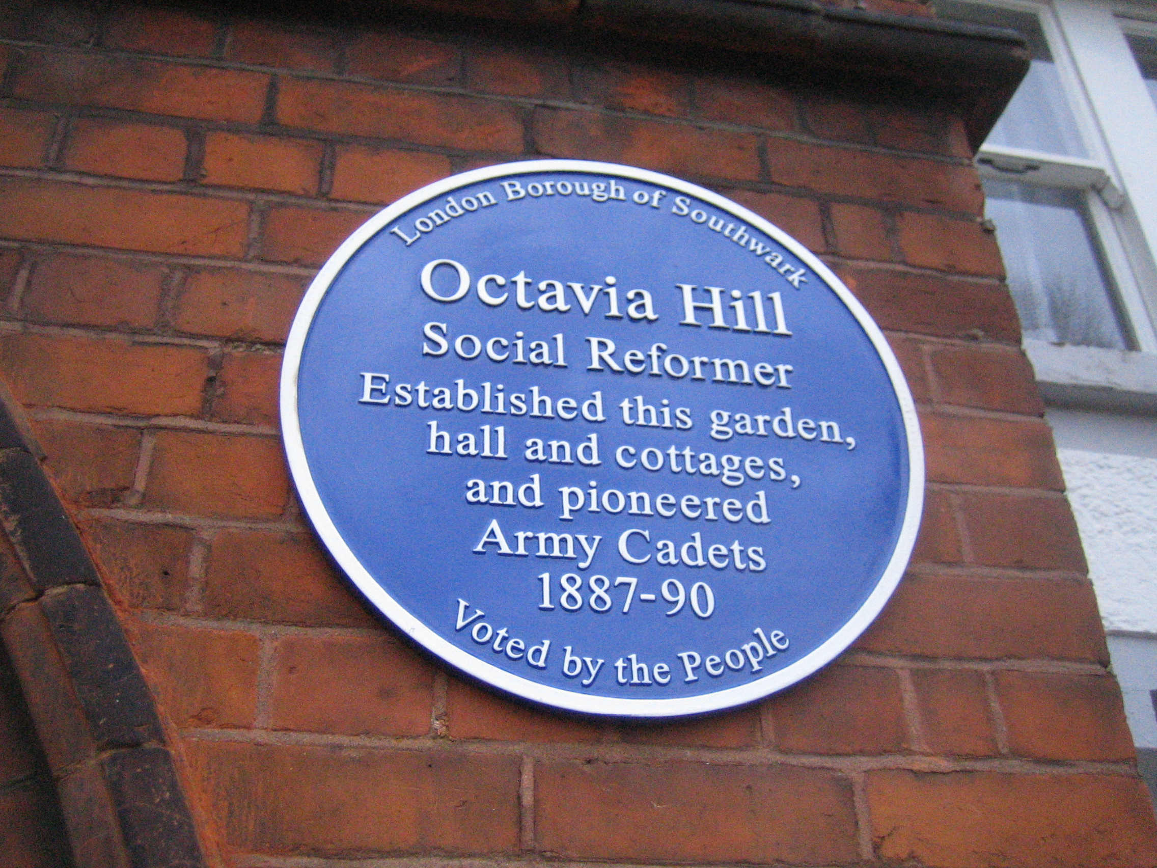 Plaque to commemorate Octavia Hill (at Red Cross Garden, 50 Redcross Way, London, SE1 1HA, UK)